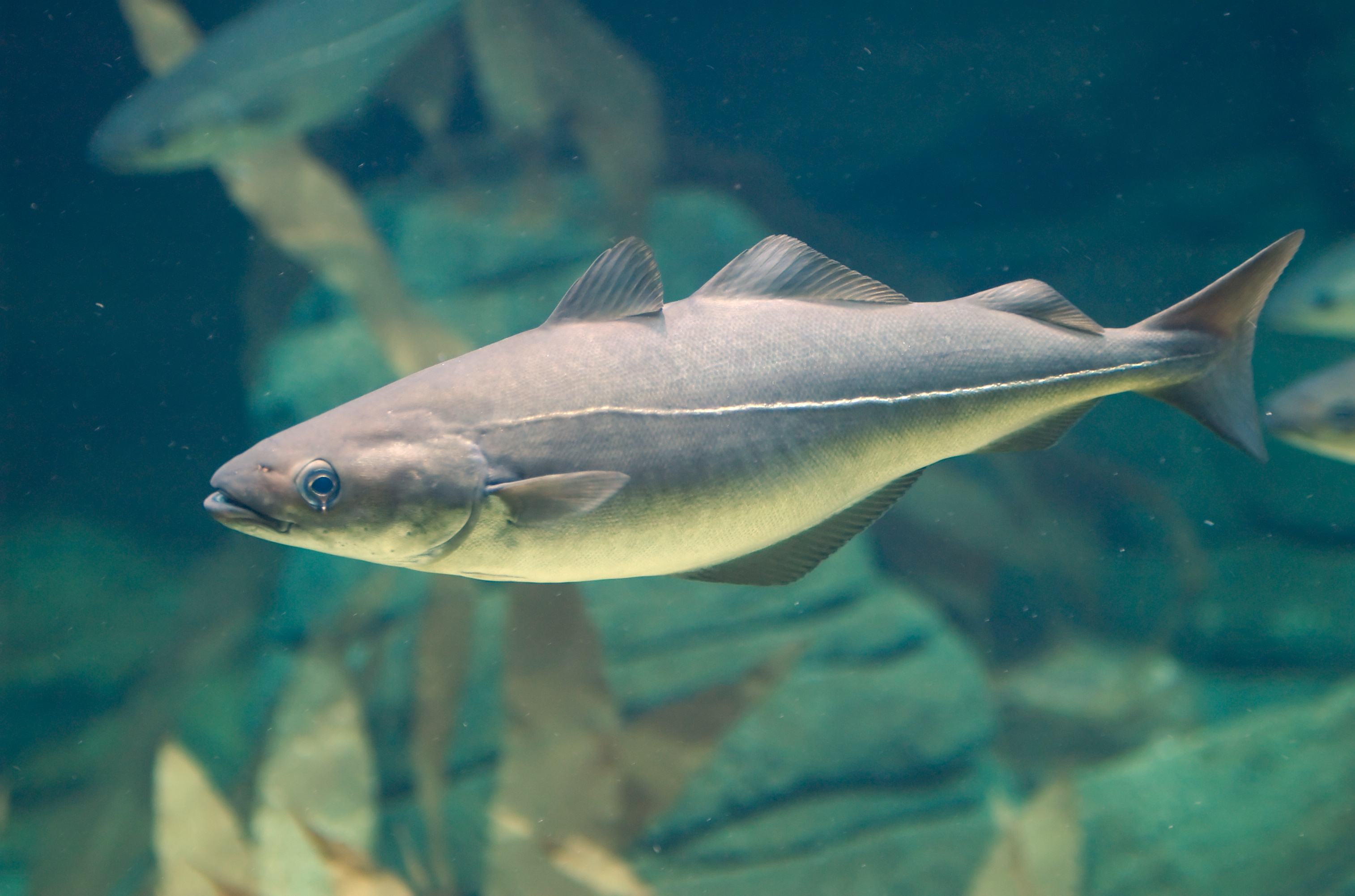 Pollock, Pollachius virens, in Ozeaneum public aquarium, Stralsund, Germany